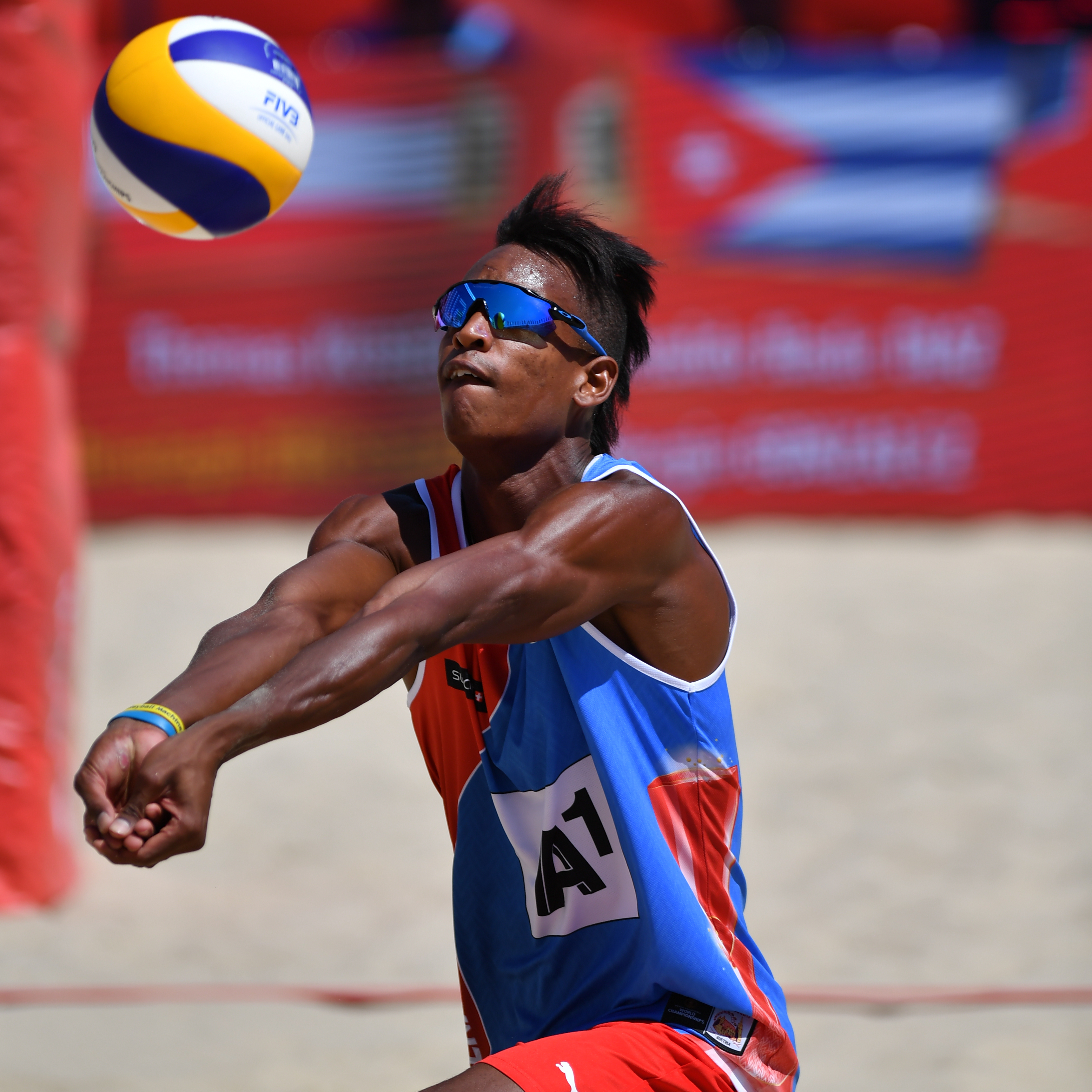 29/7/17, Vienna, Austria, sports, beach volleyball, FIVB Beach Volleyball World Championships.